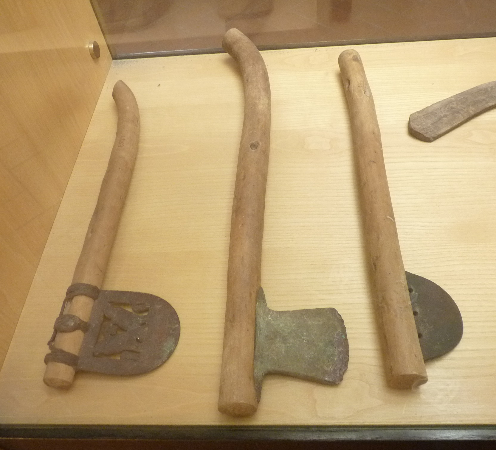 Ancient Egyptian New Kingdom axes. Bronze and wood, unknown provenience. Florence, Museo archeologico nazionale.